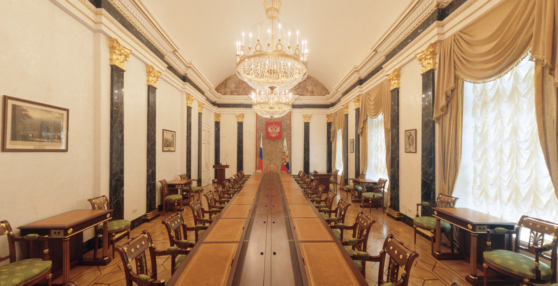 Room of the Security Council. Senate Palace. Moscow Kremlin